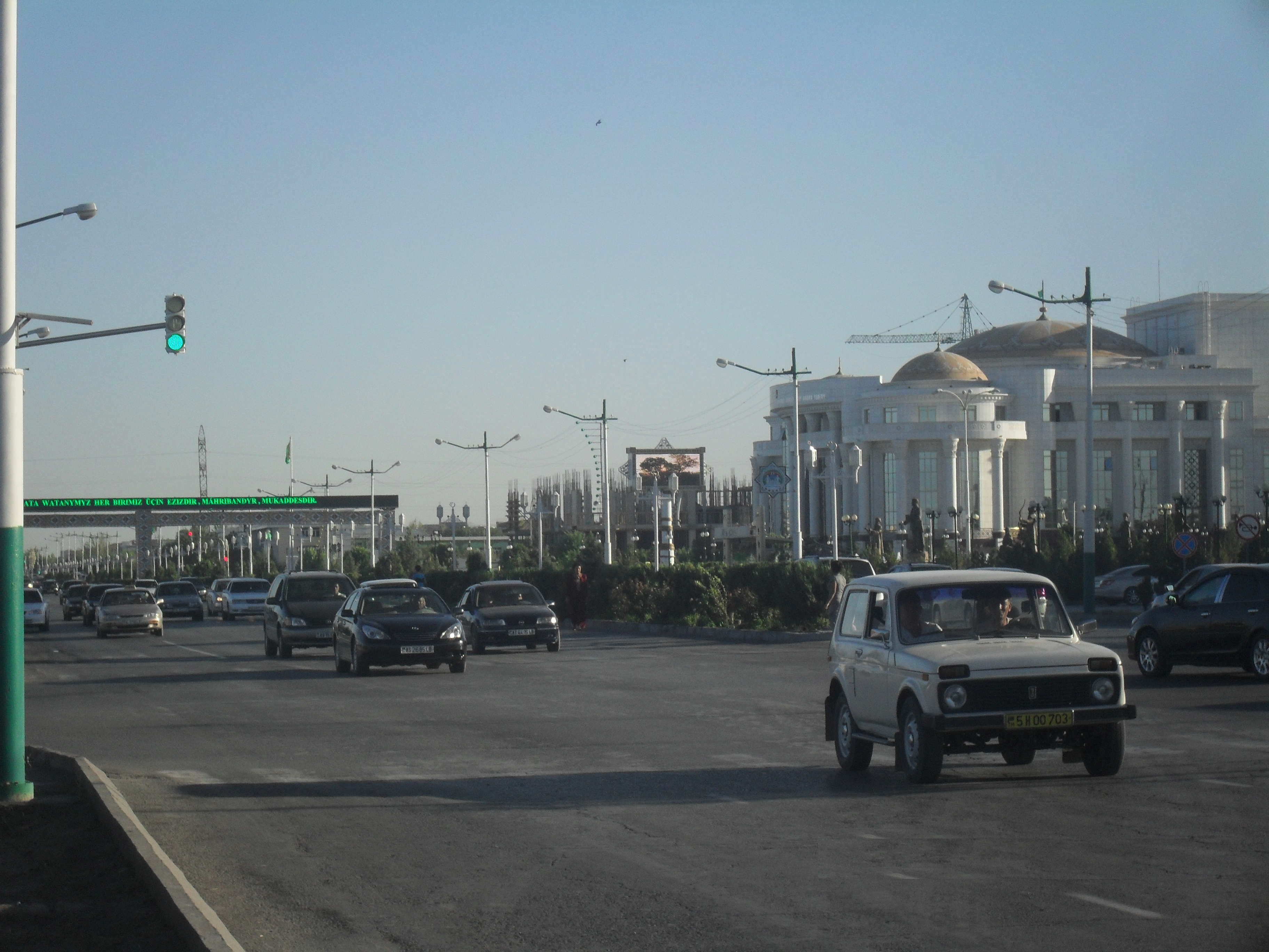 "Neutral Turkmenistan" avenue